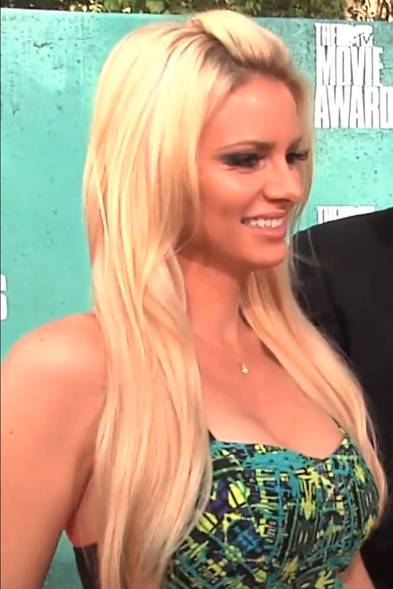 American actress and model April Rose Haydock interviewed at the MTV Movie Awards 2012 on "The Hollywood Social Lounge". Kelly V. Dolan & Mabel Aragon HOST the 2012 MTV Movie Awards Red Carpet for NBC News Radio KCAA 1050 AM "LIVE with Aaron & Kelly"